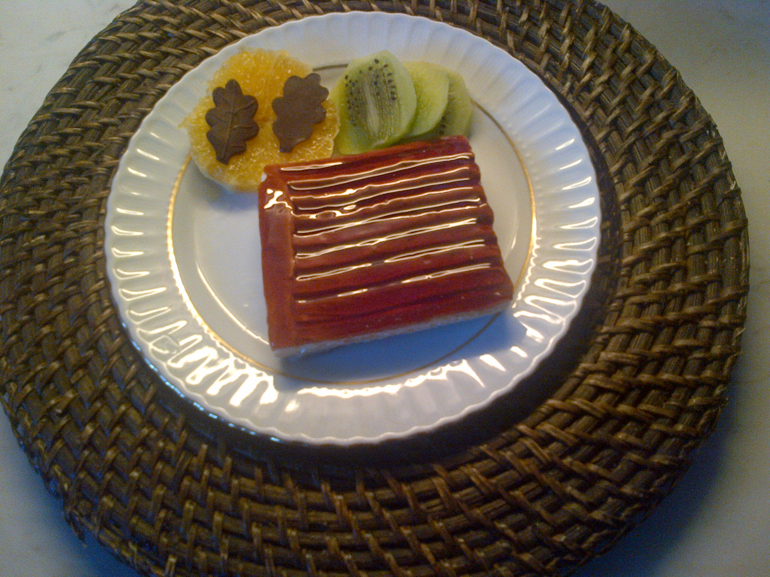 Turkish "tres leches cake" trileche, chocolate and fruit slices on a plate.